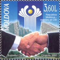 Stamp of Moldova